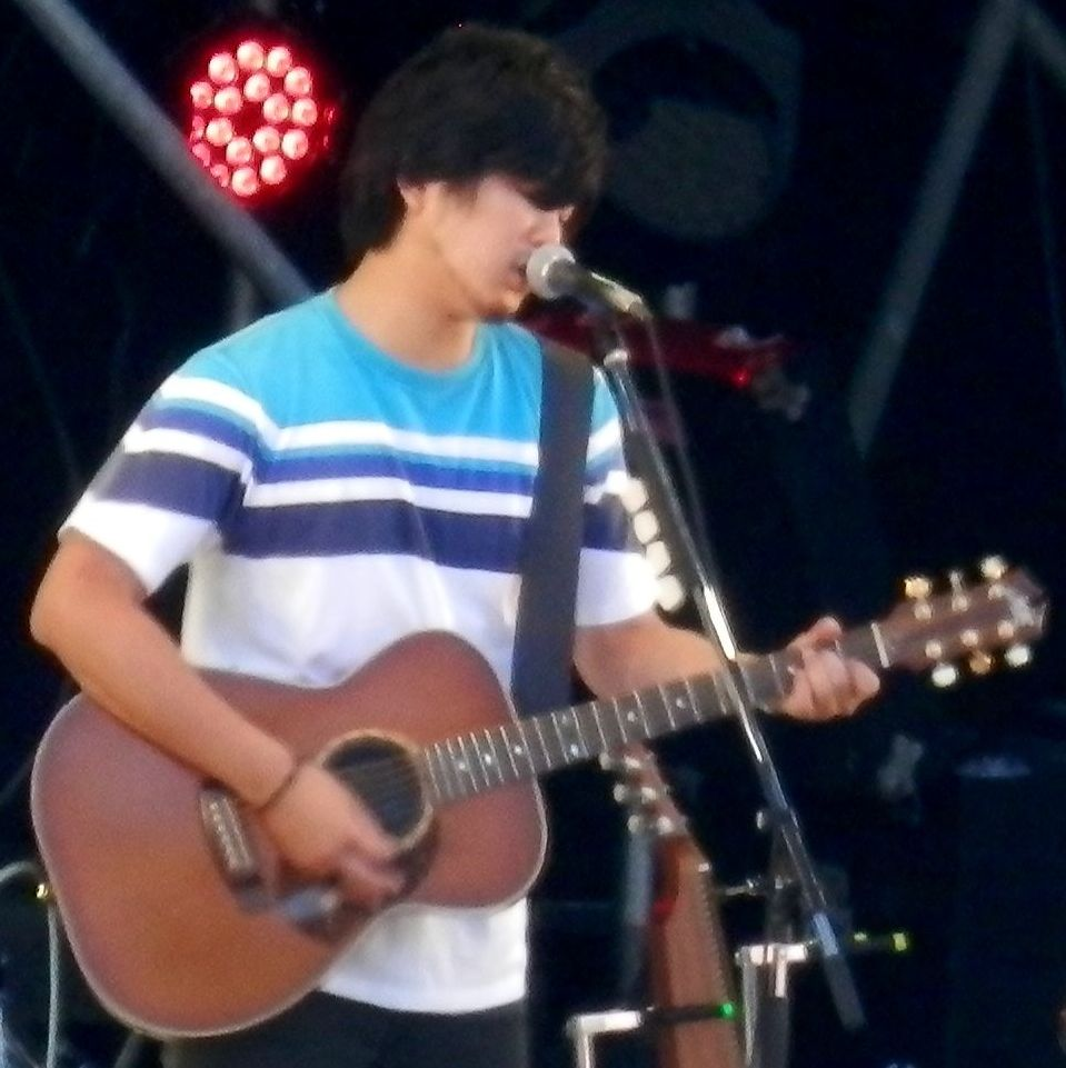 Motohiro Hata at Join Alive rock festival in Iwamizawa, Hokkaido (June 21, 2013)